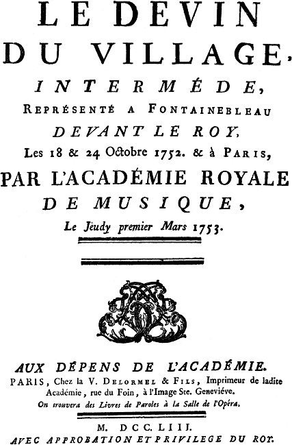 Title page of Le Devin du village (libretto), words and music by Jean-Jacques Rousseau (1712-1778)